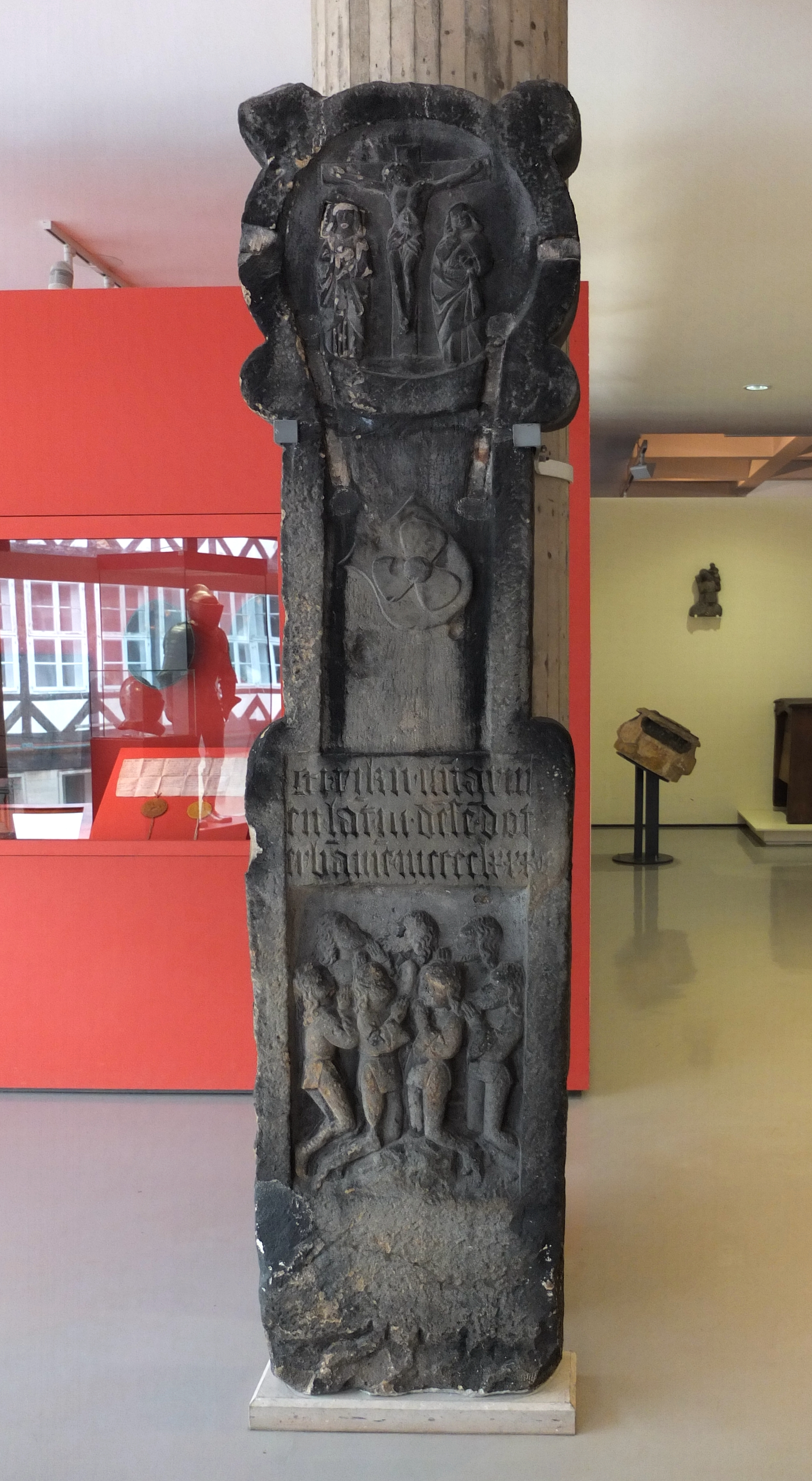 Wayside cross/commemorative cross, so-called "Sieben-Männer-Stein" (1480) in Historisches Museum Hanover